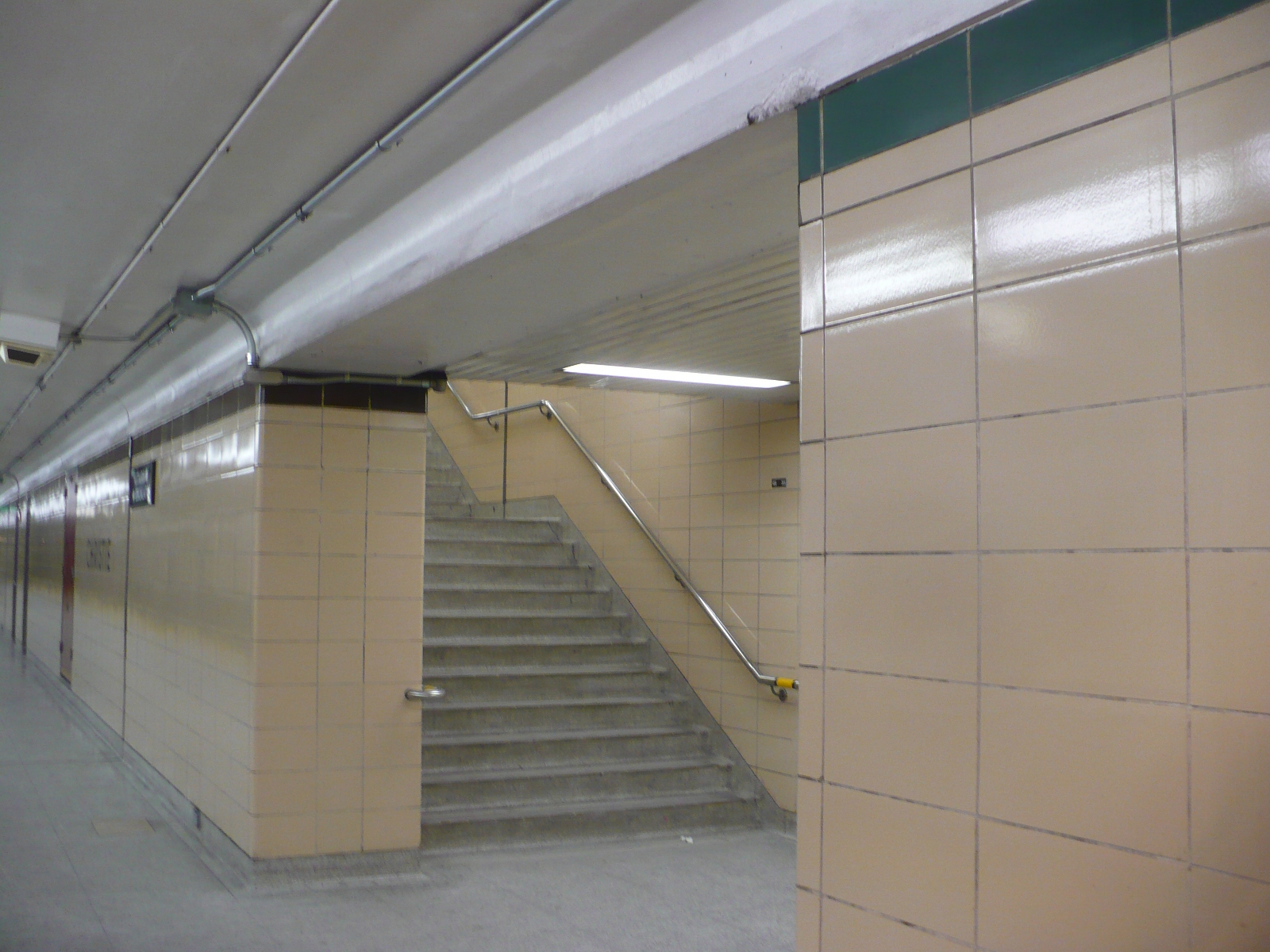 Christie subway station in Toronto. Sections of tile were replaced after a train fire, resulting in the addion of some missmatching red trim at the top instead of the original green